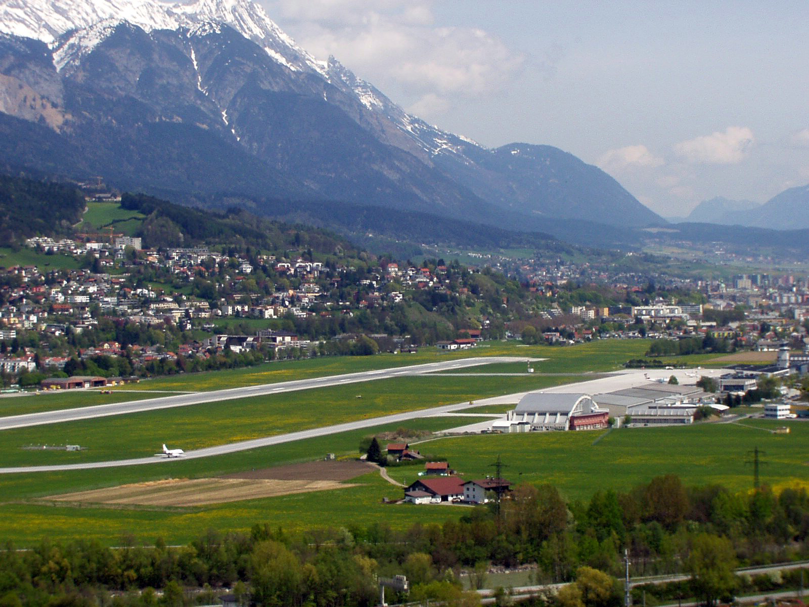 Innsbruck Airport (LOWI/INN)